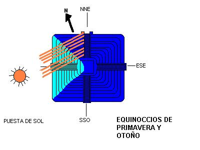 Kukulcán pyramid equinox effect